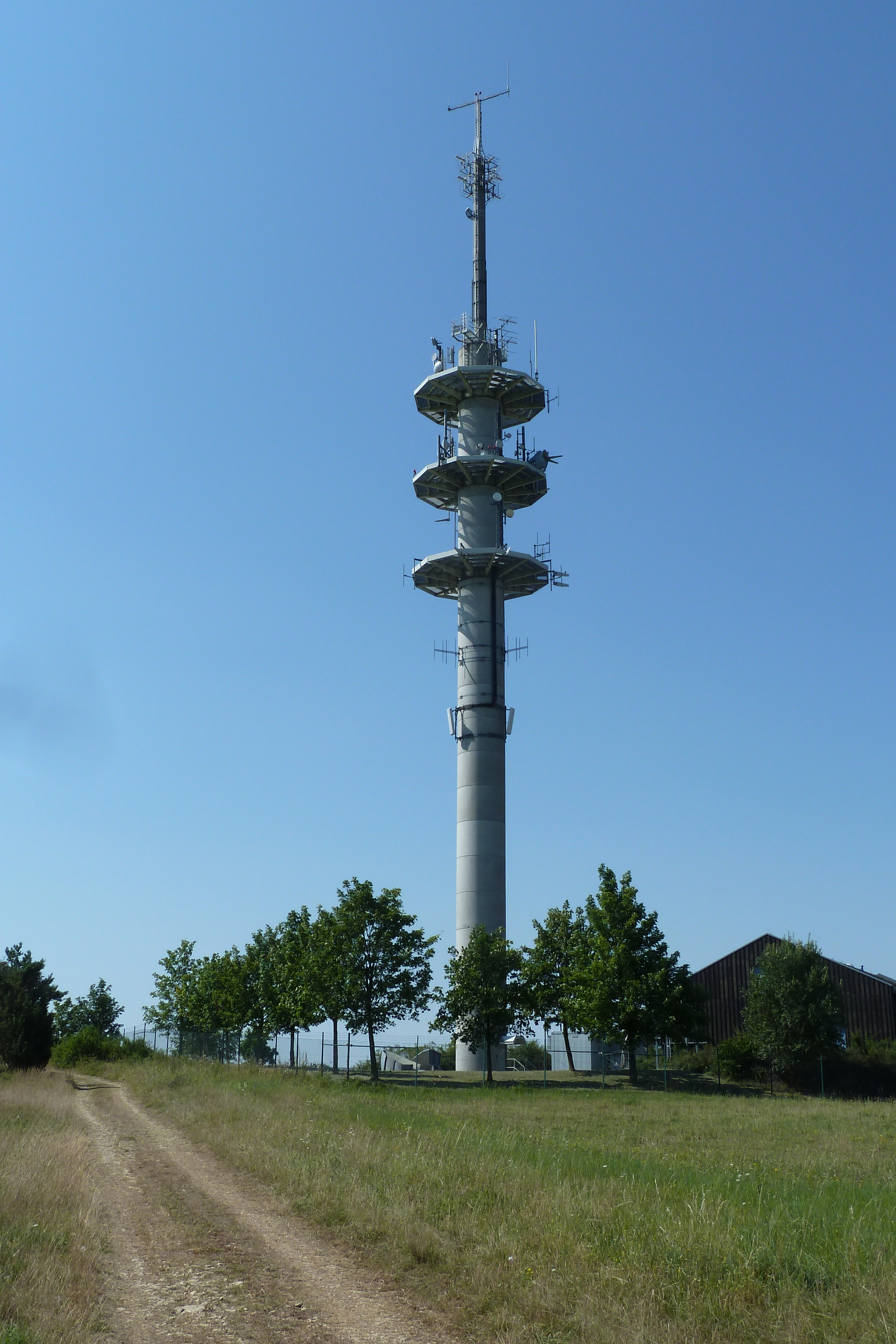 Radio tower in Oßmaritz/Cospoth, Municipality of Bucha near Jena, Saale-Holzland-Kreis, Thuringia, Germany